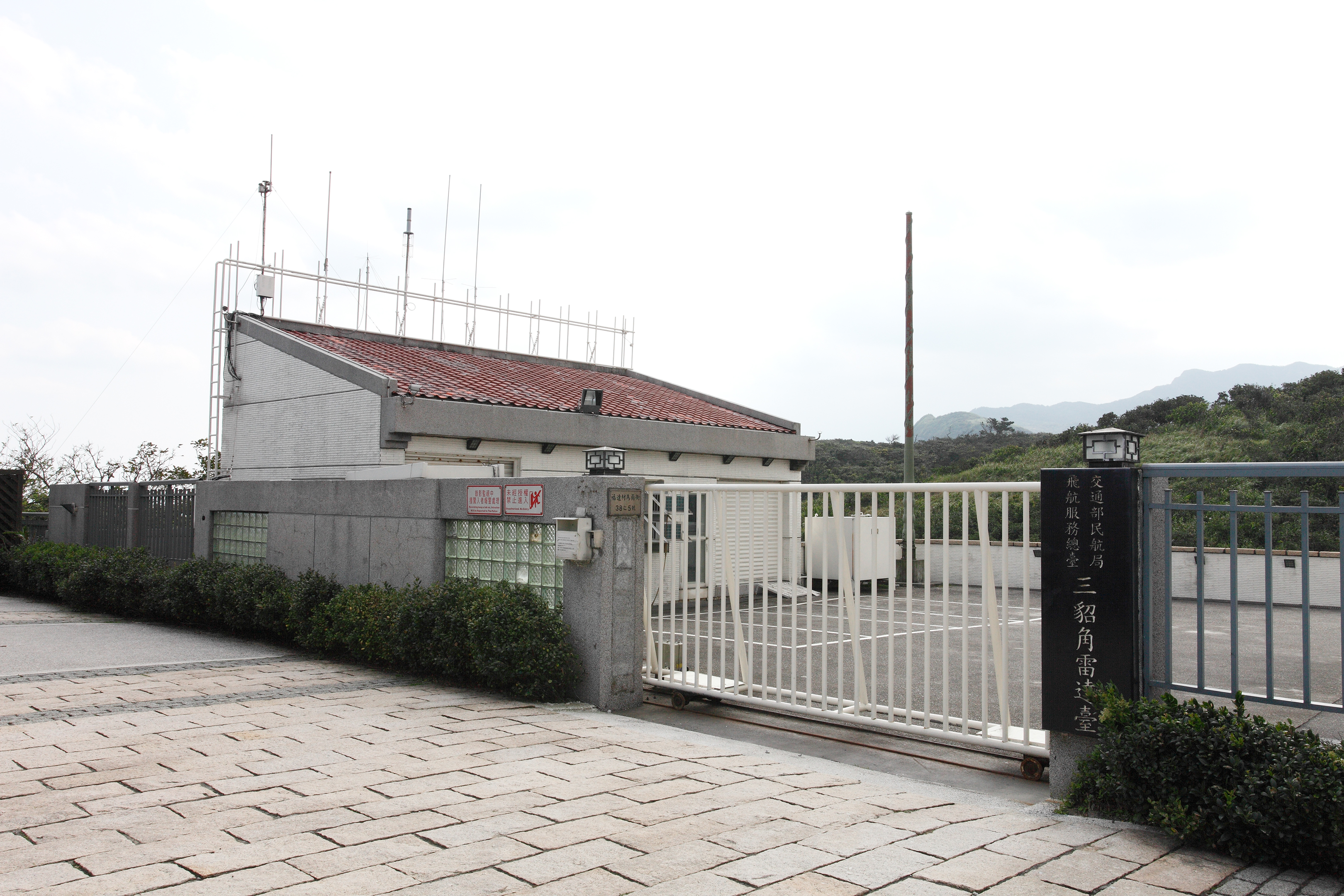 Sandiaojiao Radar Site, Air Navigation and Weather Services, Civil Aeronautics Administration, Ministry of Transportation and Communications, Republic of China.